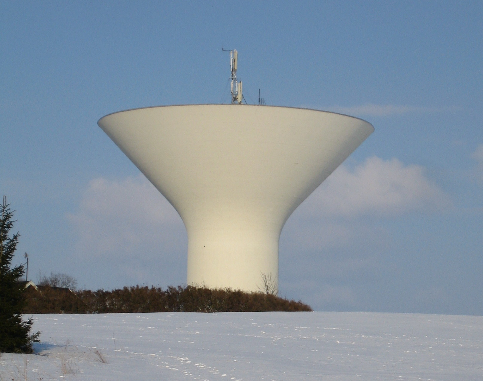 The water tower in Oxie outside Malmö, Sweden.